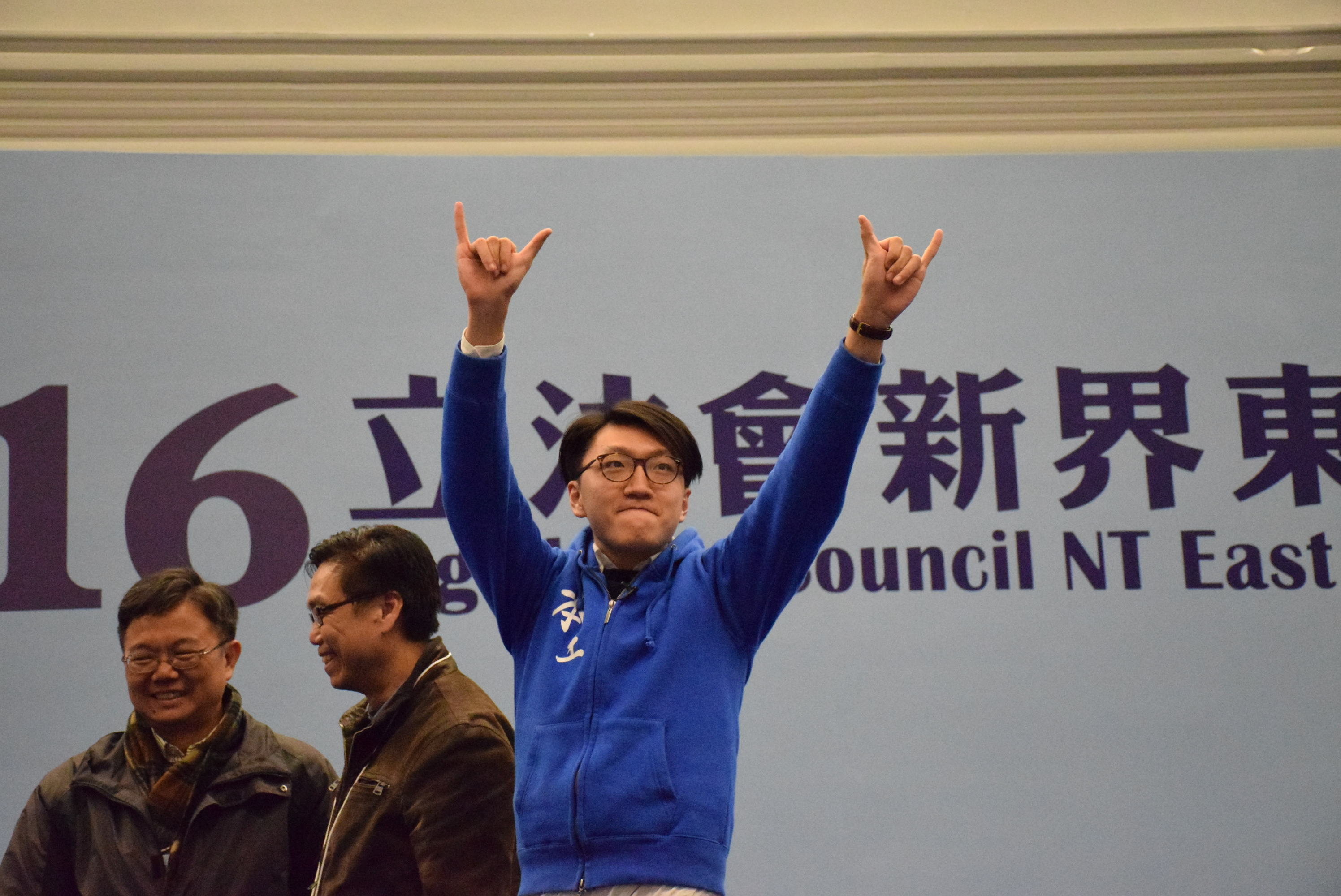 No. 6 candidate Edward Leung of Hong Kong Indigenous making no. 6 gestures. 中文（香港）: 6號候選人本土民主前線梁天琦得票超過6萬6千，他在台上雙手高舉6字手勢。